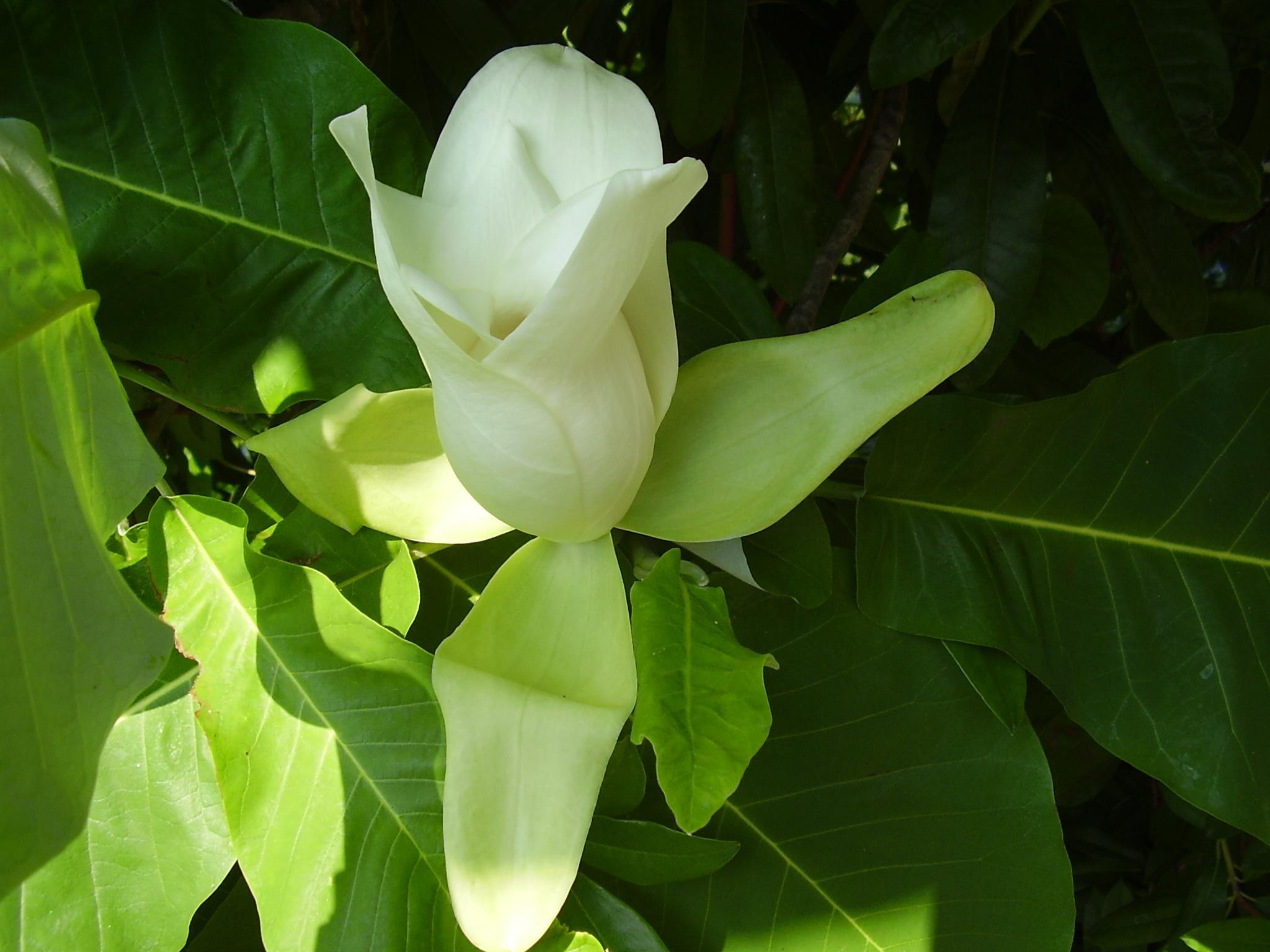 Photo taken by me in Switzerland, May/June 2006. Shows a flower of Magnolia macrophylla var. ashei in female phase.